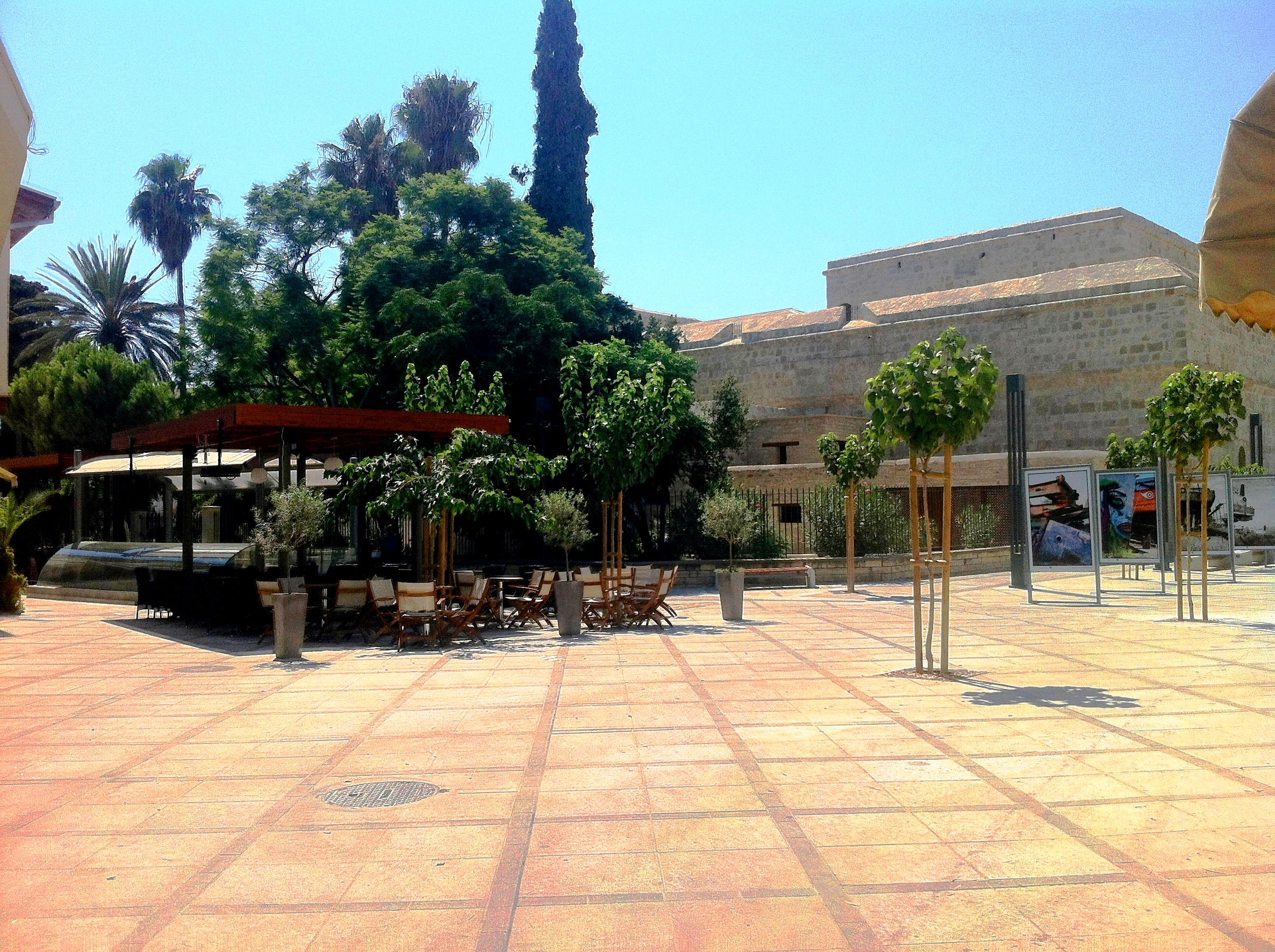 Limassol Castle Square